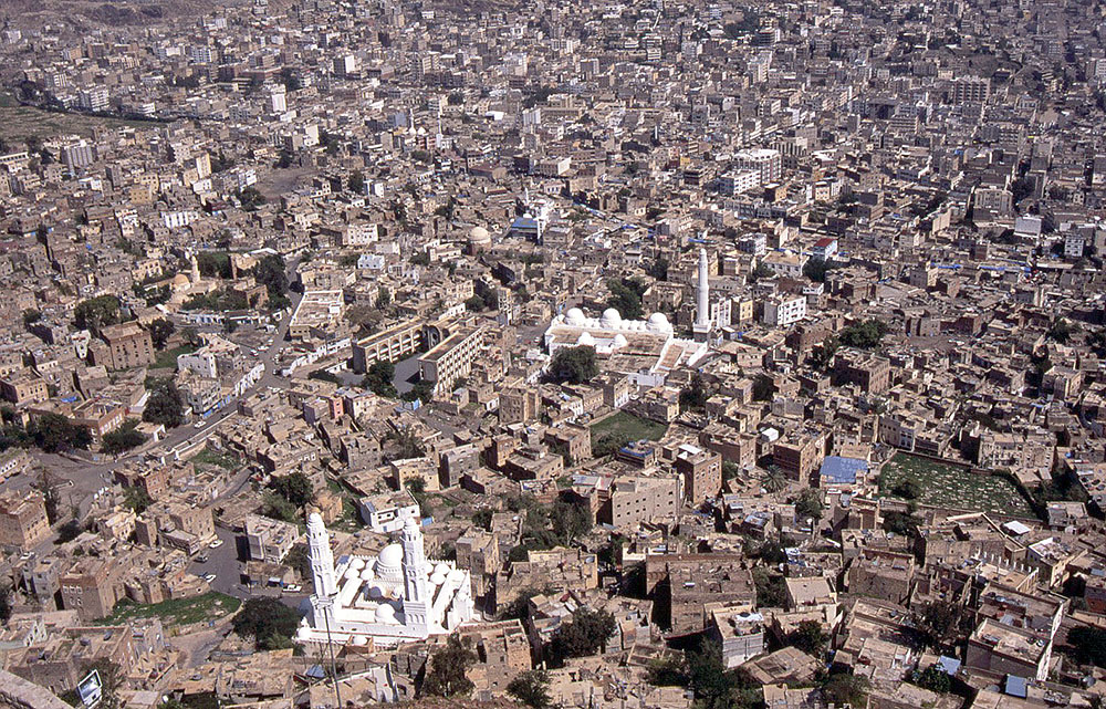 Taizz with Aschrafiyya Mosque